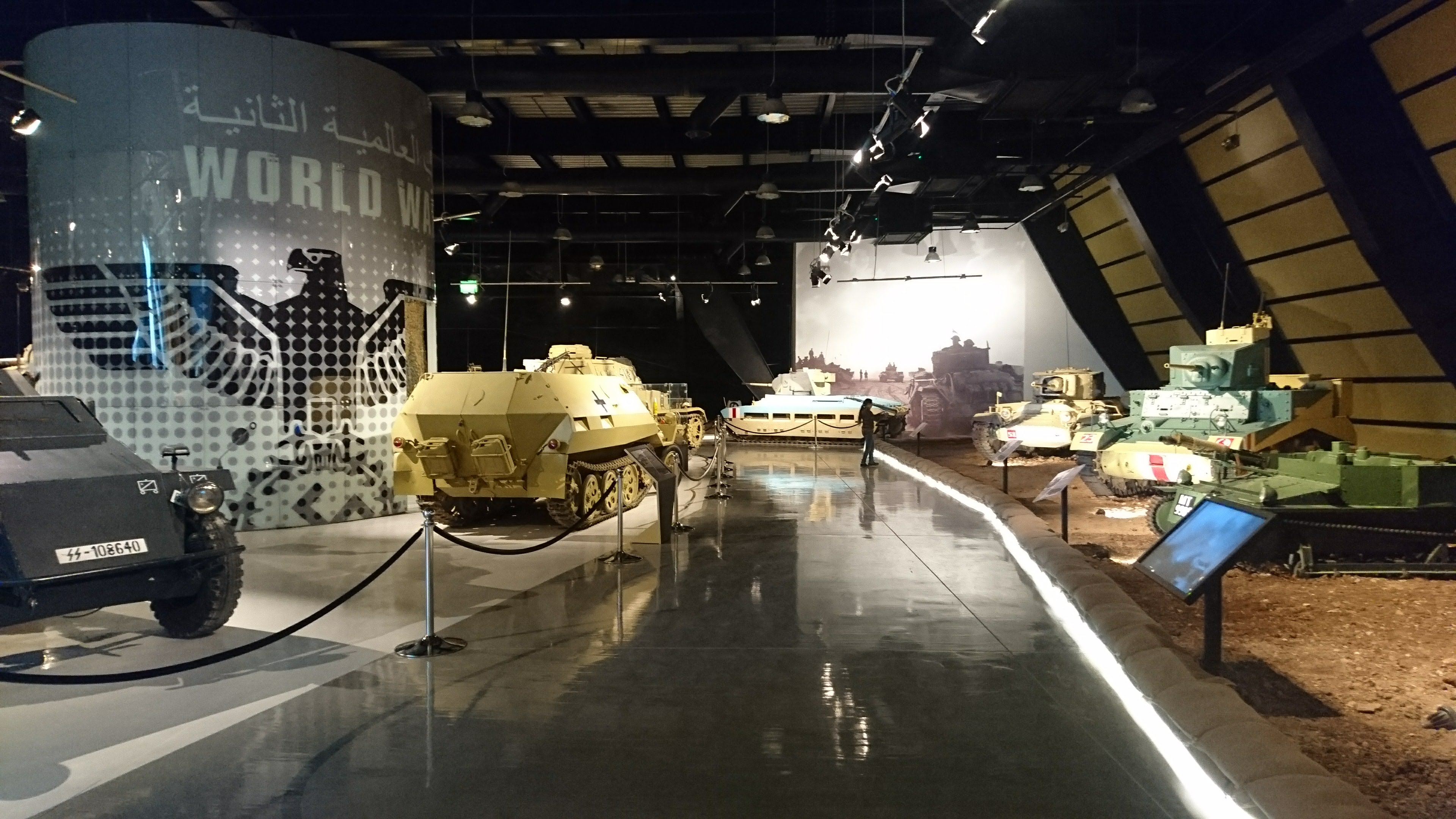 Royal Tank Museum, Amman - Jordan